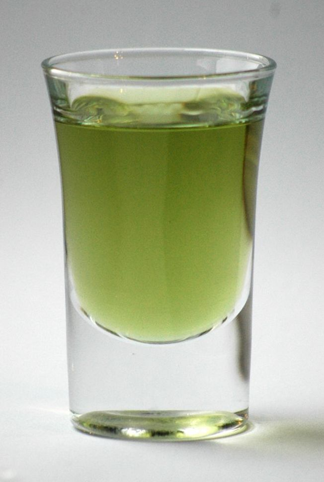 A shot glass of green Chartreuse